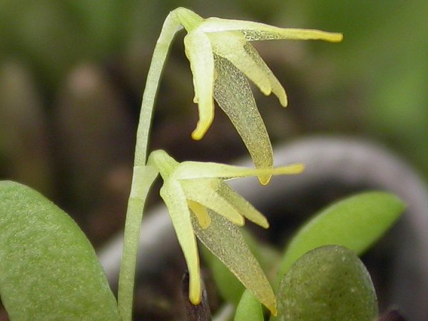 Anathallis